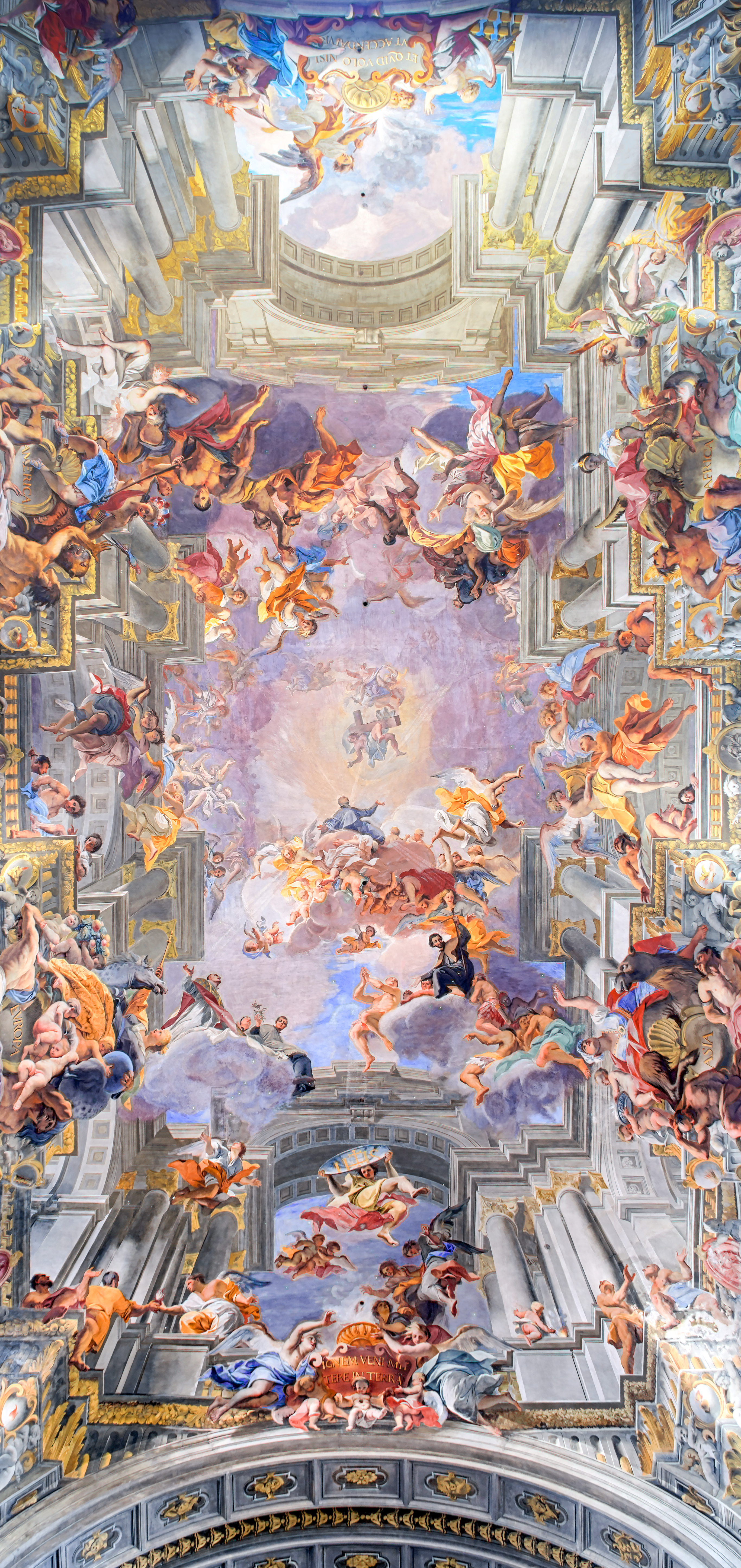 Triumph of St. Ignatius of Loyola, ceiling fresco by Andrea Pozzo, church Sant'Ignazio, Rome (HDR photo)